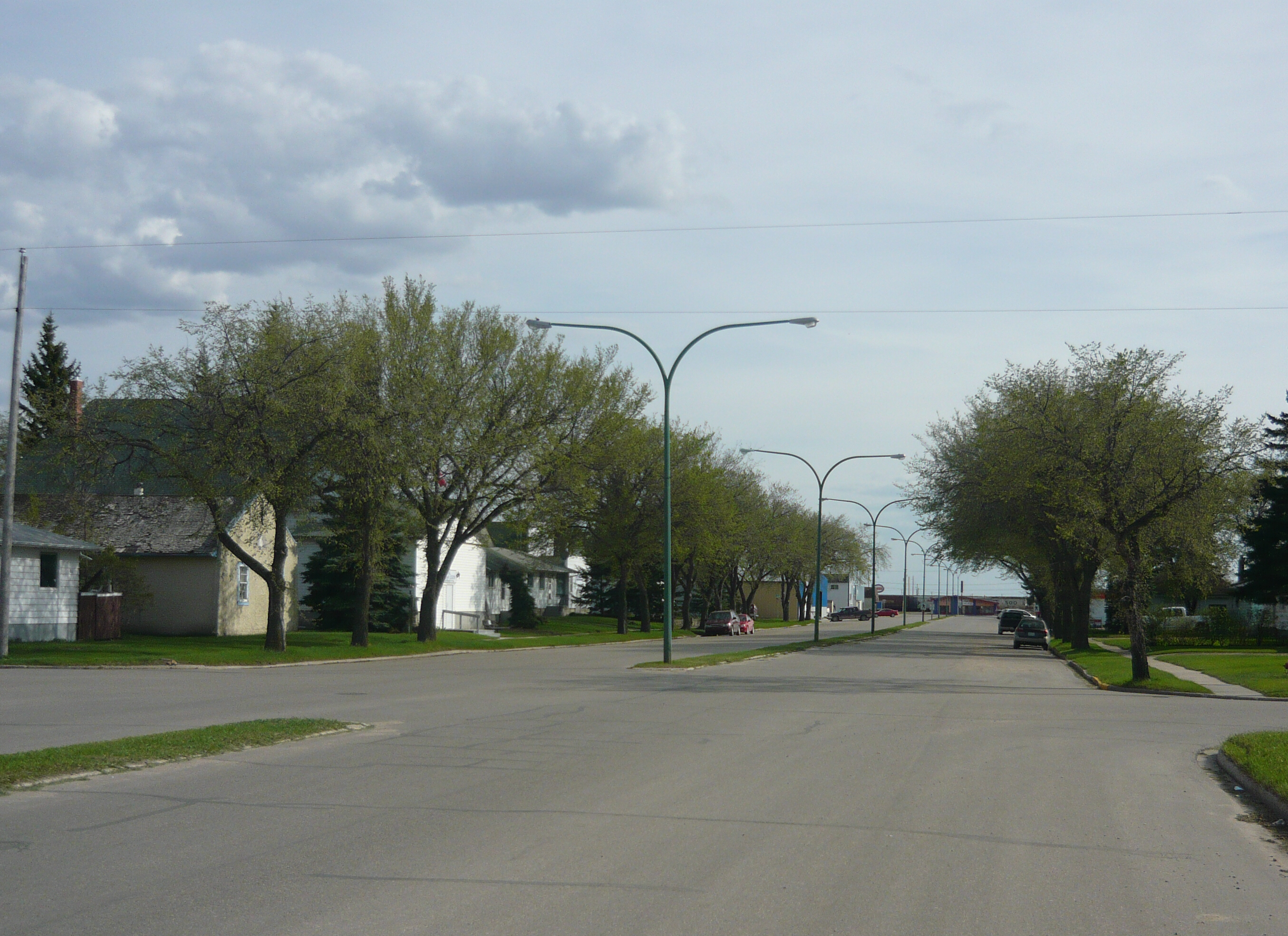 Main Street (at corner of Ulster Street, looking southward), Lanigan, Saskatchewan, Canada